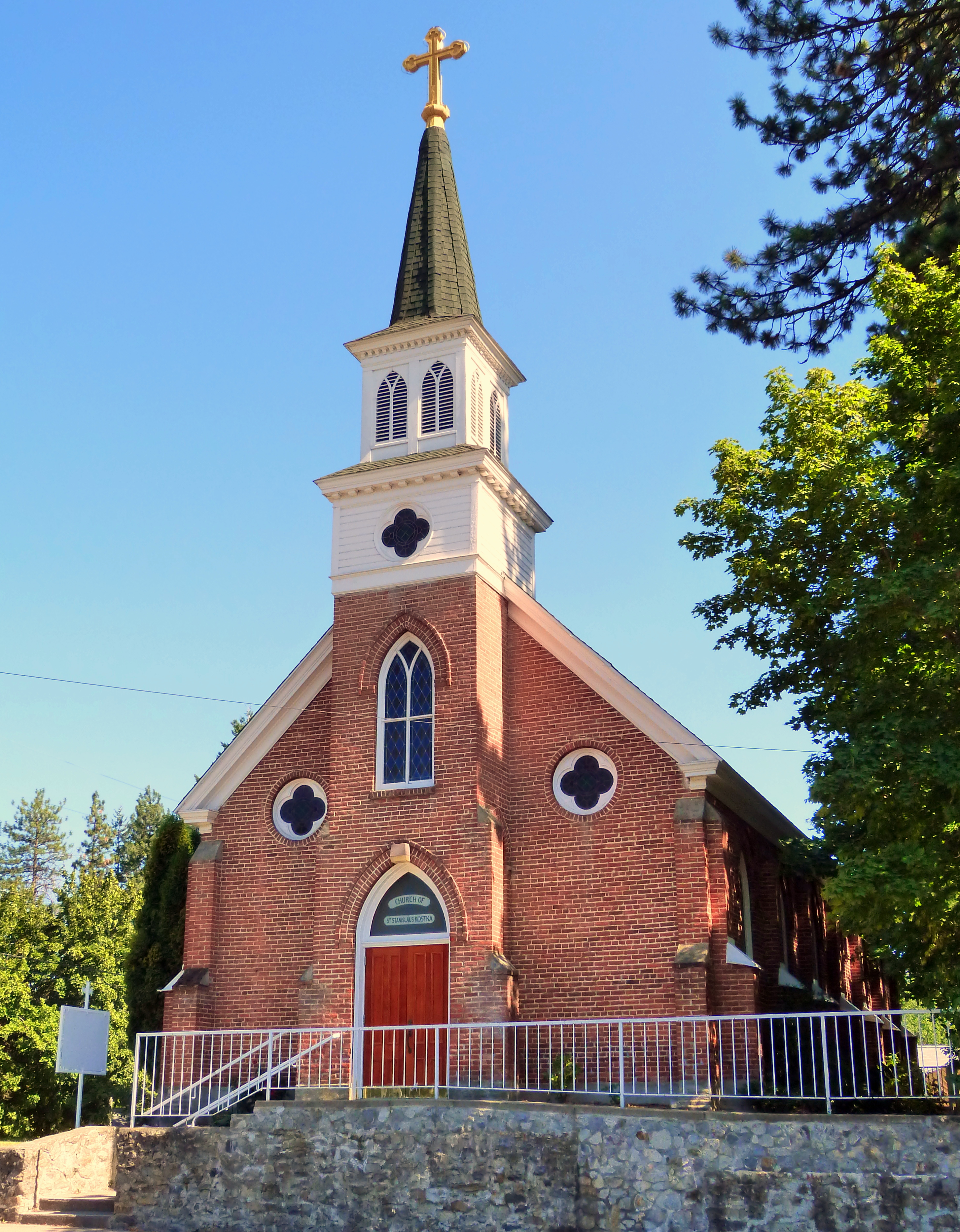 The historic St. Stanislaus Kostka Church (built 1900), located at the intersection of McCartney and 3rd Streets in Rathdrum, Idaho, United States, is listed on the US National Register of Historic Places.